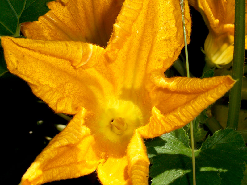 Flower of zucchini